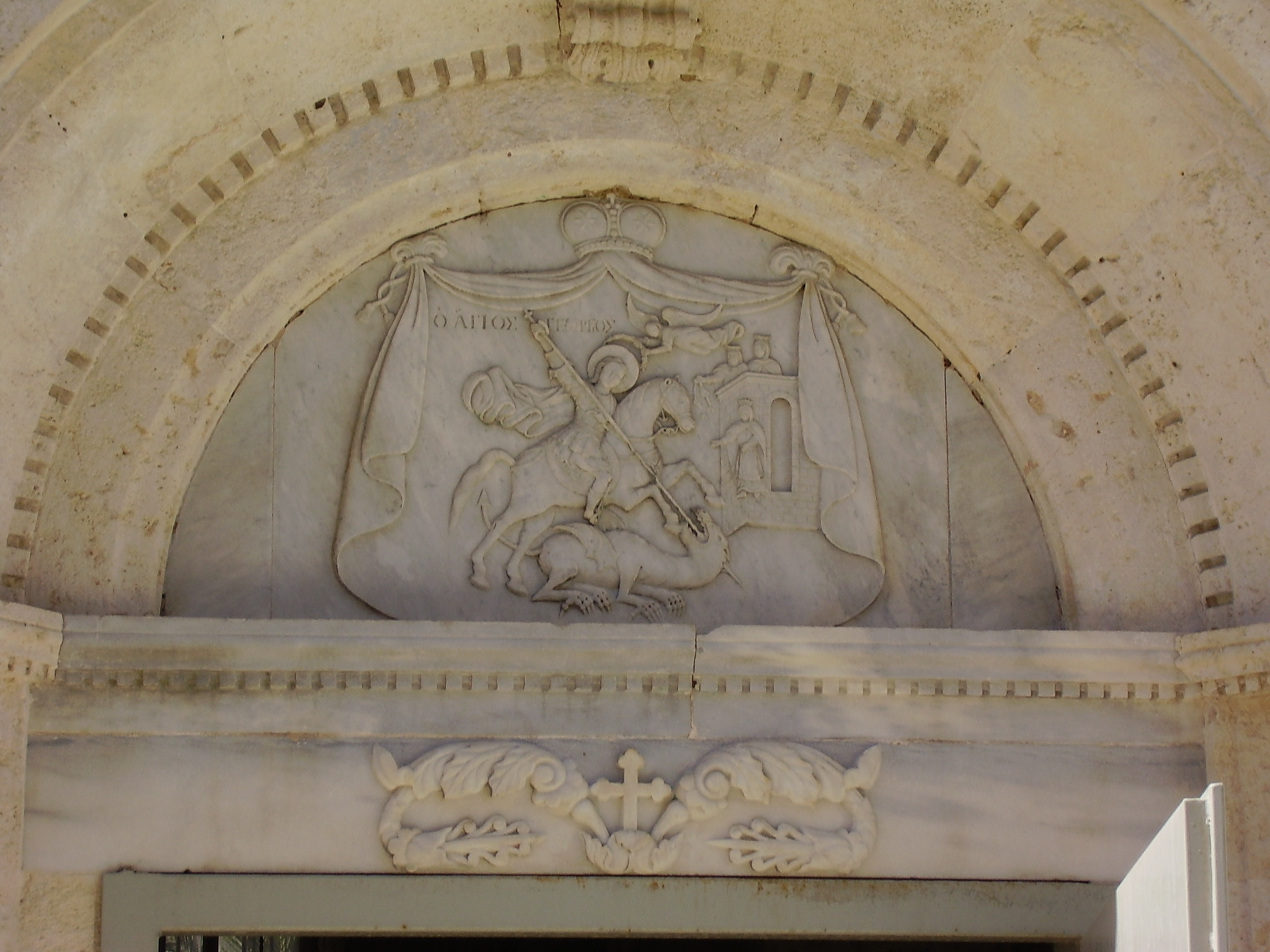 Saint George Killing the Dragon in St.George Church in Lod, Israel